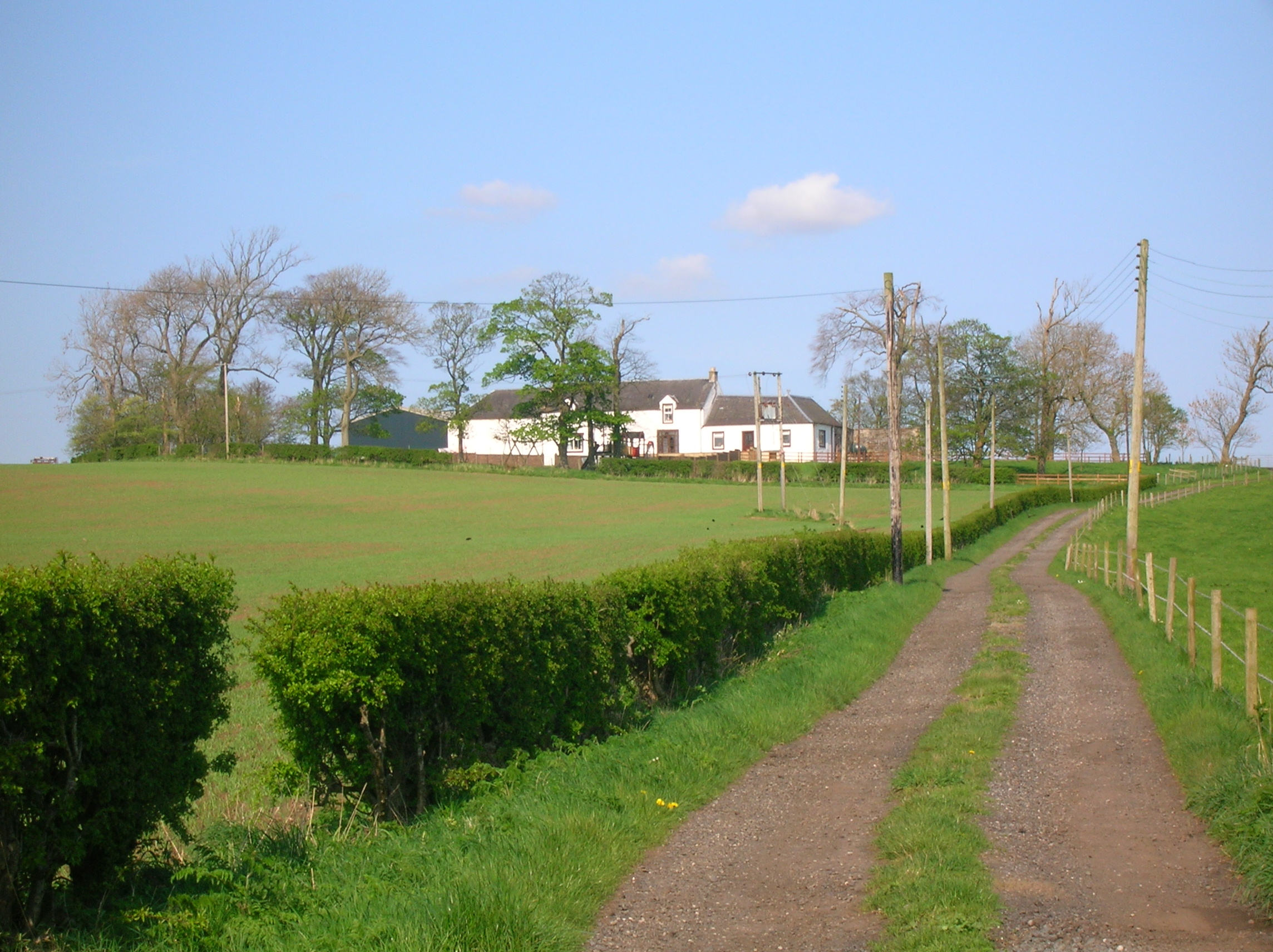 Jocksthorn farm, Kilmaurs, East Ayrshire, Scotland. Rosser 14:21, 30 April 2007 (UTC)